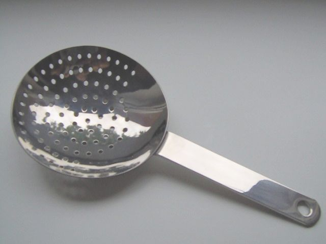 Julep Strainer, used to strain cocktails from the shaker and hold back the ice. Size: 17,5 x 8 cm (6,9 x 3,1").